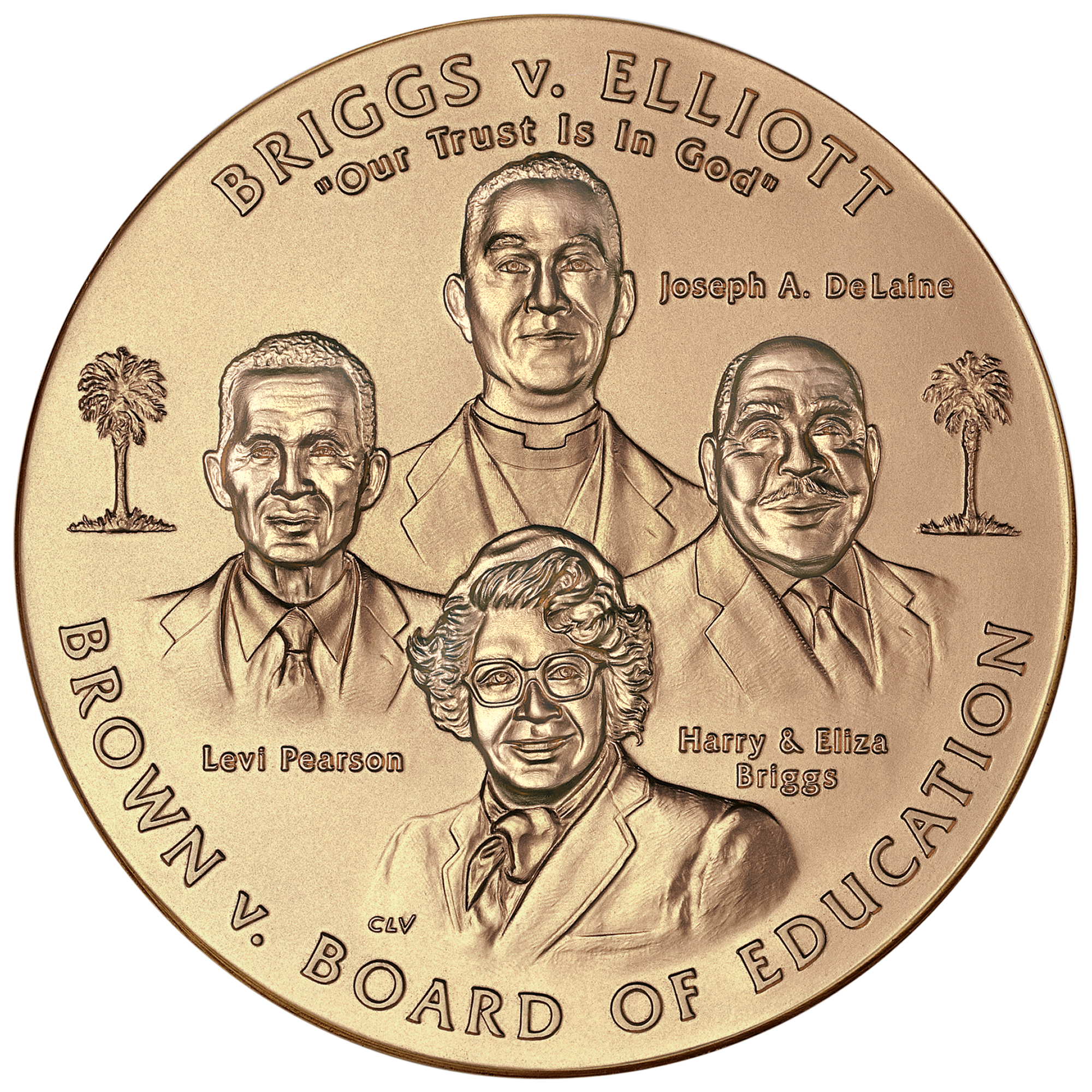 Text info from U.S. Mint: Authorized by Public Law 108-180, this medal commemorates Reverend Joseph A. DeLaine, Harry and Eliza Briggs and Levi Pearson for their contributions to the Nation as pioneers in the effort to desegregate public schools that led directly to the landmark desegregation case of Brown et al. v. the Board of Education of Topeka et al. The medal is a bronze replica of the Congressional Gold Medals awarded posthumously to Reverend Joseph A. DeLaine, Harry and Eliza Briggs and Levi Pearson and presented to personal representatives of each at a ceremony at the United States Capitol building on September 9, 2004. The obverse design features a portrait of Reverend Joseph A. DeLaine at the top center of the design, Harry Briggs in the right center, Eliza Briggs at the lower center and Levi Pearson in the left center of the design. Each name is inscribed next to the corresponding image. Centered along the top field are the inscriptions, “BRIGGS v. ELLIOTT” and “Our Trust Is In God”. Inscribed along the bottom are the words, “BROWN v. BOARD OF EDUCATION.” Two palm trees flank the images, one on the left and one on the right. The reverse design features four inscriptions that run from top to bottom: “Honoring the Pioneers and Petitioners from Clarendon County, South Carolina”, “They proved that segregation in education can never produce equality and that it is an evil that must be eradicated.” “Judge J. Waties Waring Dissenting Opinion”, “ACT OF CONGRESS 2003.” To the left of the inscriptions is a statue of Justitia, the Roman goddess of justice, portrayed with a pair of balanced scales raised in her left hand and a sword at her side in her right hand. In the forefront, four books are to be seen.